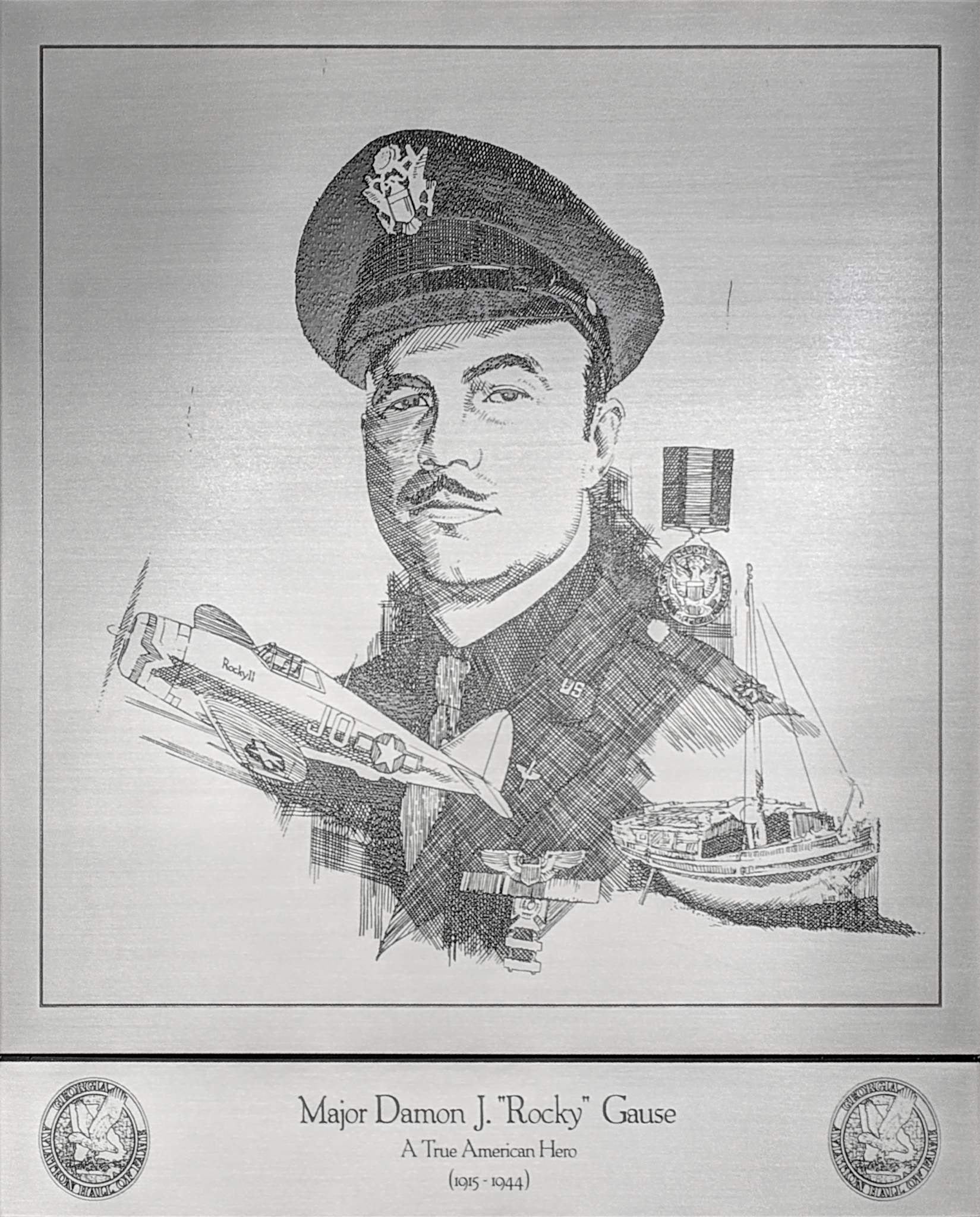 Major Damon J. "Rocky" Gause (1915 - 1944)